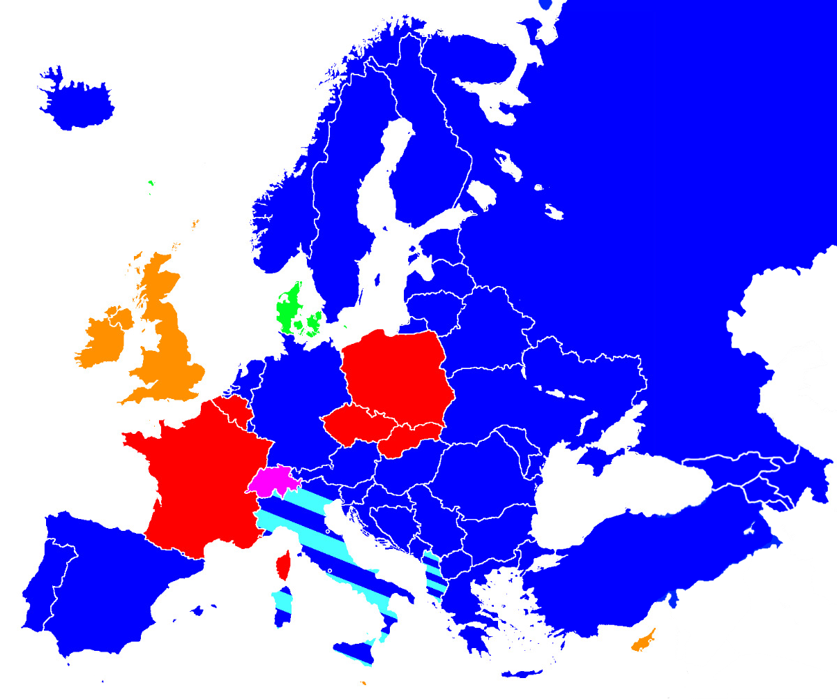 The types of plugs in Europe Schuko (Type F, CEE 7/4 plug, CEE 7/7 plug) French (Type E, CEE 7/6 plug, CEE 7/7 plug) British (Type G, BS 1363) Swiss (Type J, SEV 1011) Danish 107-2-D1 (Type K) Italian CEI 23-50 (Type L)